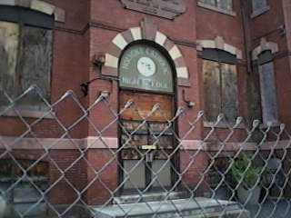 Mara Hall (2012) boarded up at Holyoke Catholic's original campus.